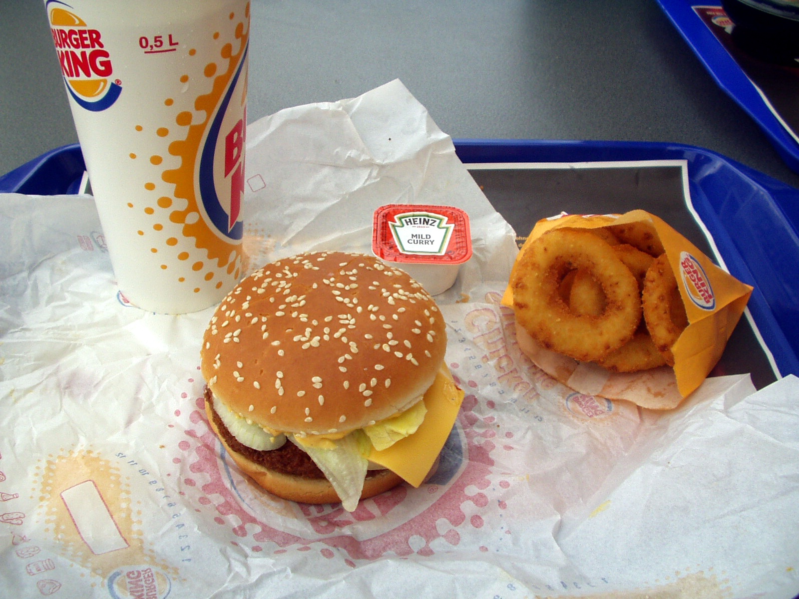 Vegetarian "Country Burger" with cheese, onion rings, curry sauce and coke at Burger King.